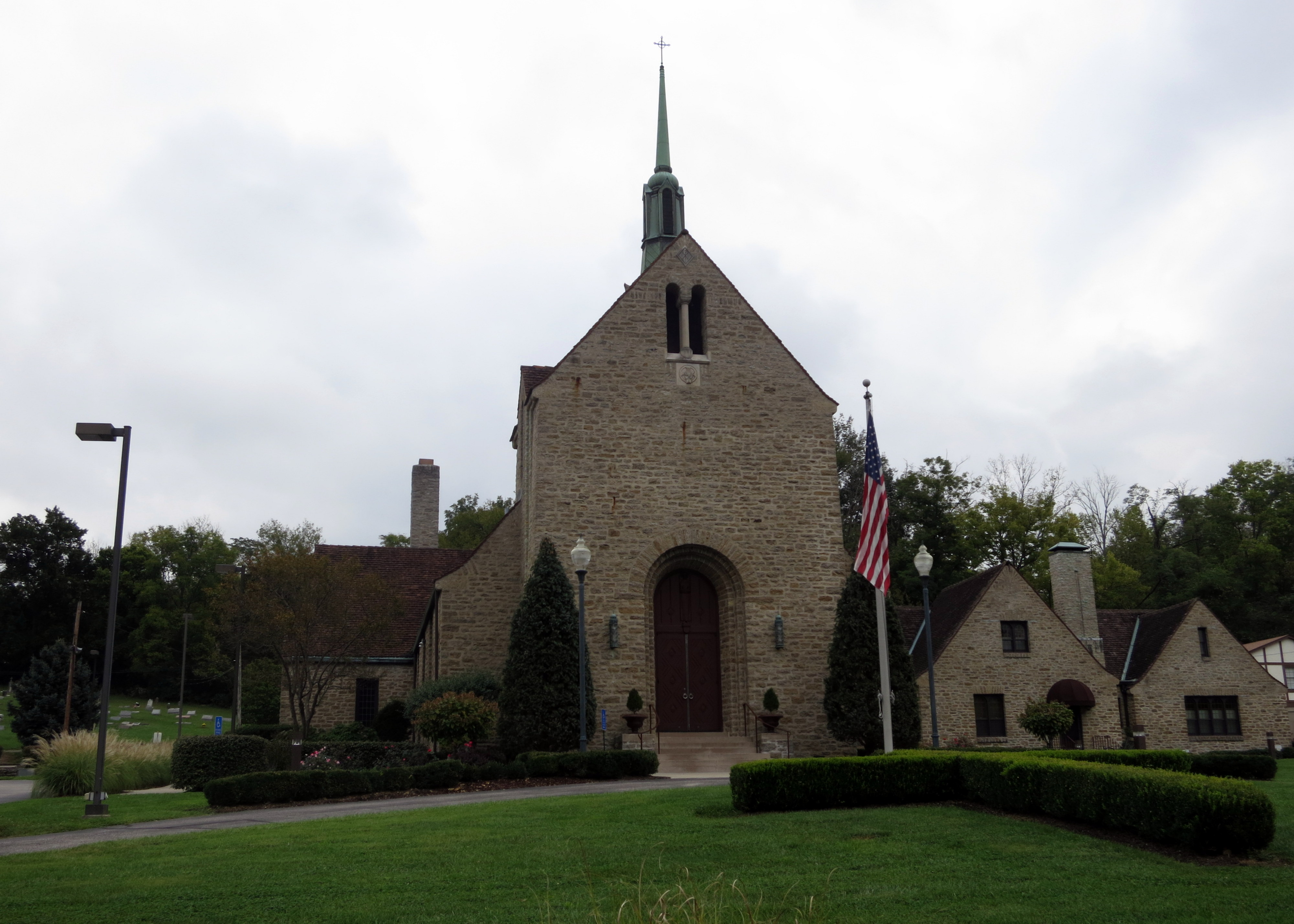 Saint Bernard of Clairvaux Catholic Church (Taylor Creek, Ohio) - church & rectory 2